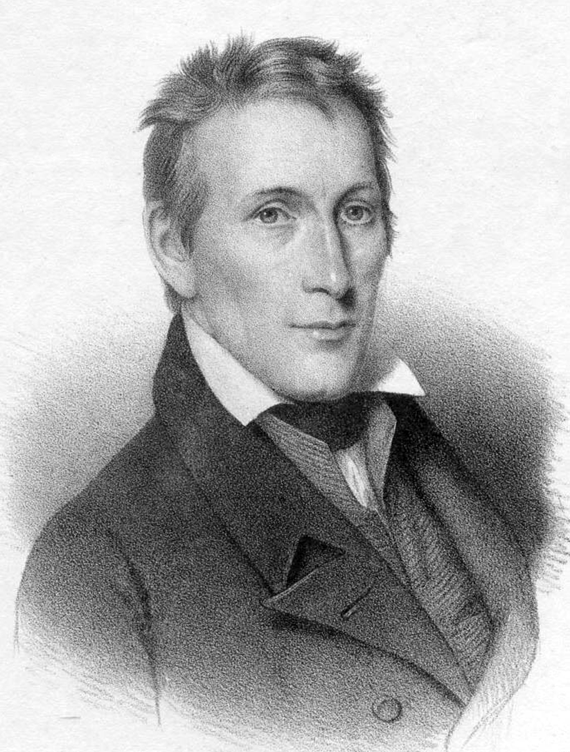 Frontispiece from Reliquiae Baldwinianae: selections from the correspondece of the late William Balwin, M.D., compiled by William Darlington, M.D., Philadelphia, 1843.